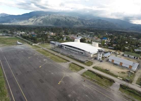 Wamena Airport, Wamena, Papua, Indonesia